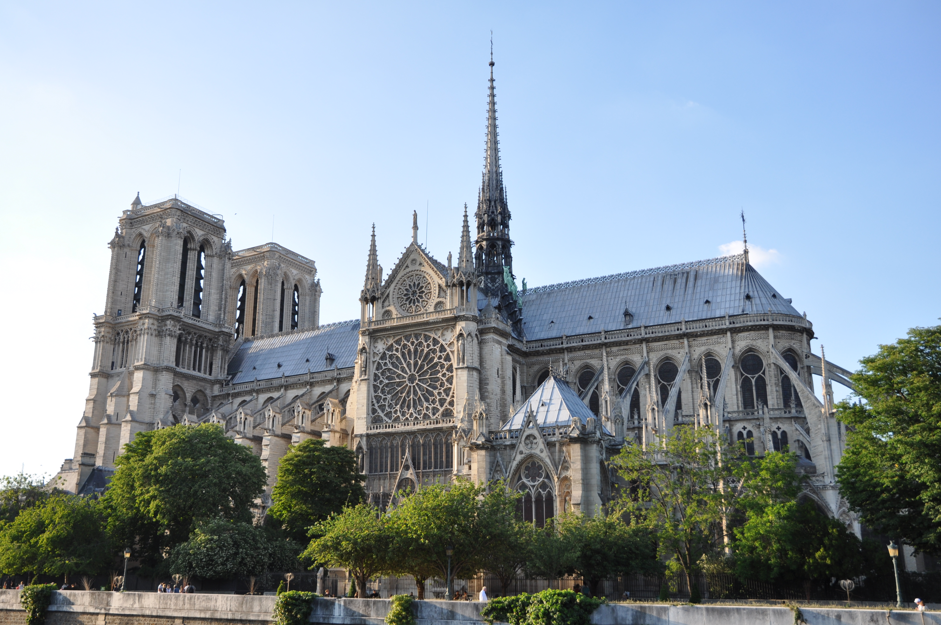 South facade of Notre-Dame de Paris.